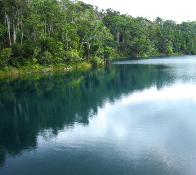 This is a photo I took in May 2007 from a viewing platform on the lake's edge. Bruceanthro 23:50, 8 November 2007 (UTC)